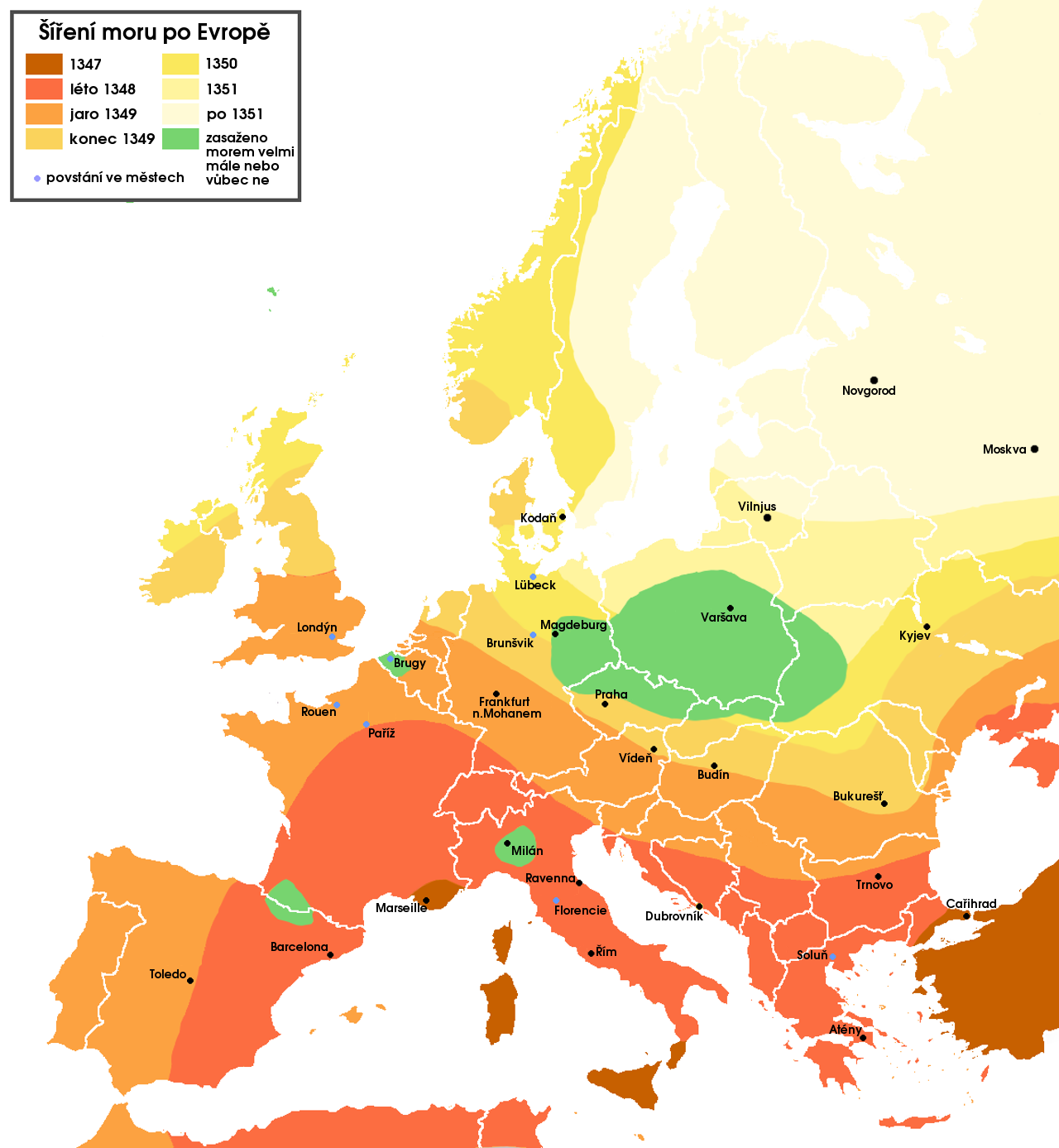 Spreading of the plague in Europe between 1347 and 1351.